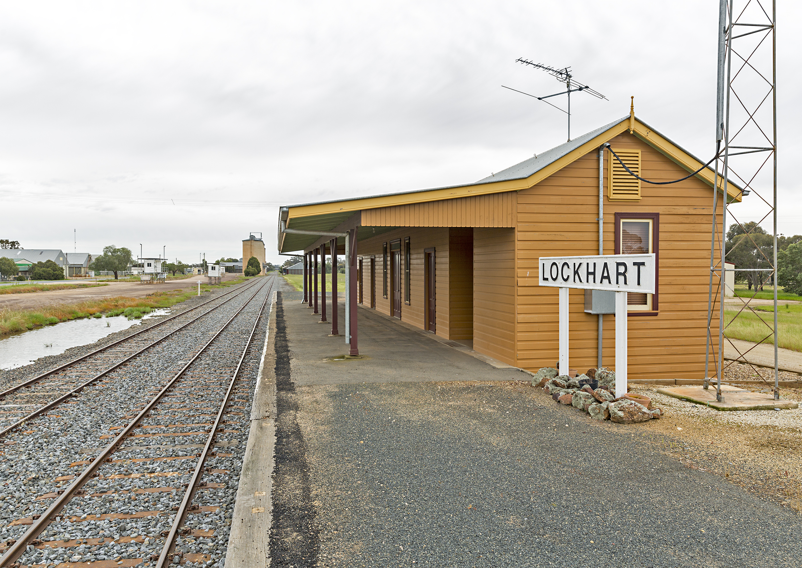 Former Lockhart Railway Station now NSW RFS Riverina Zone Lockhart Emergency Complex